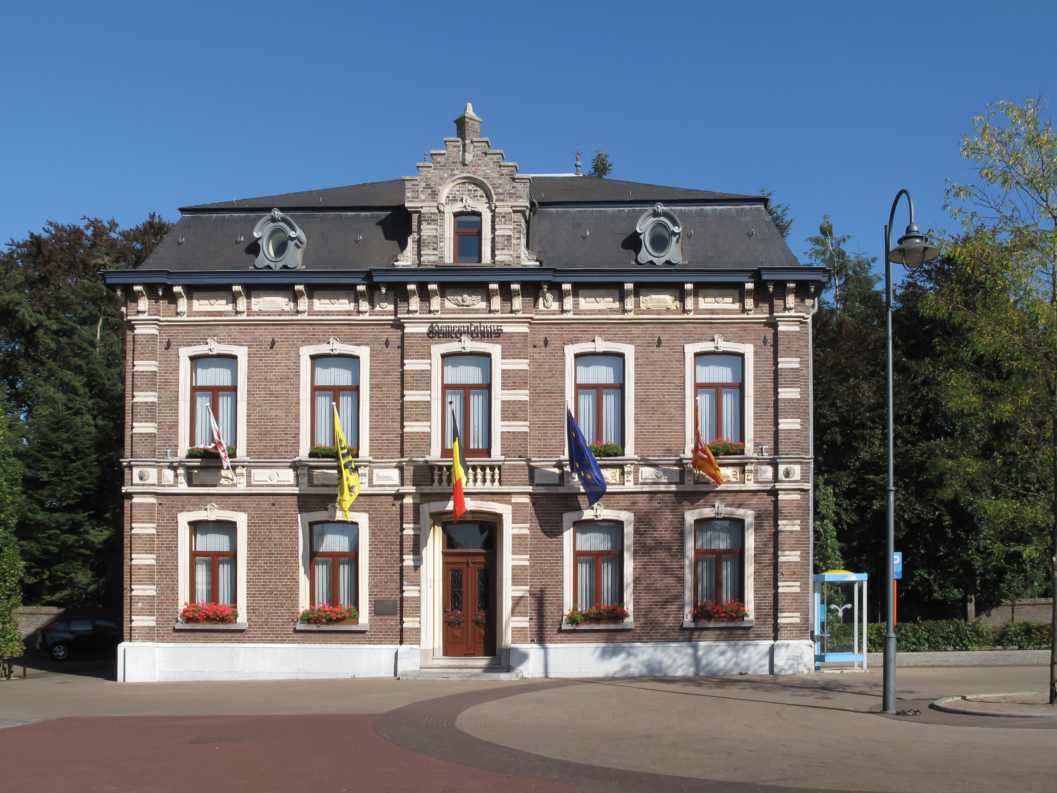 Sint Huibrechts Lille, townhall